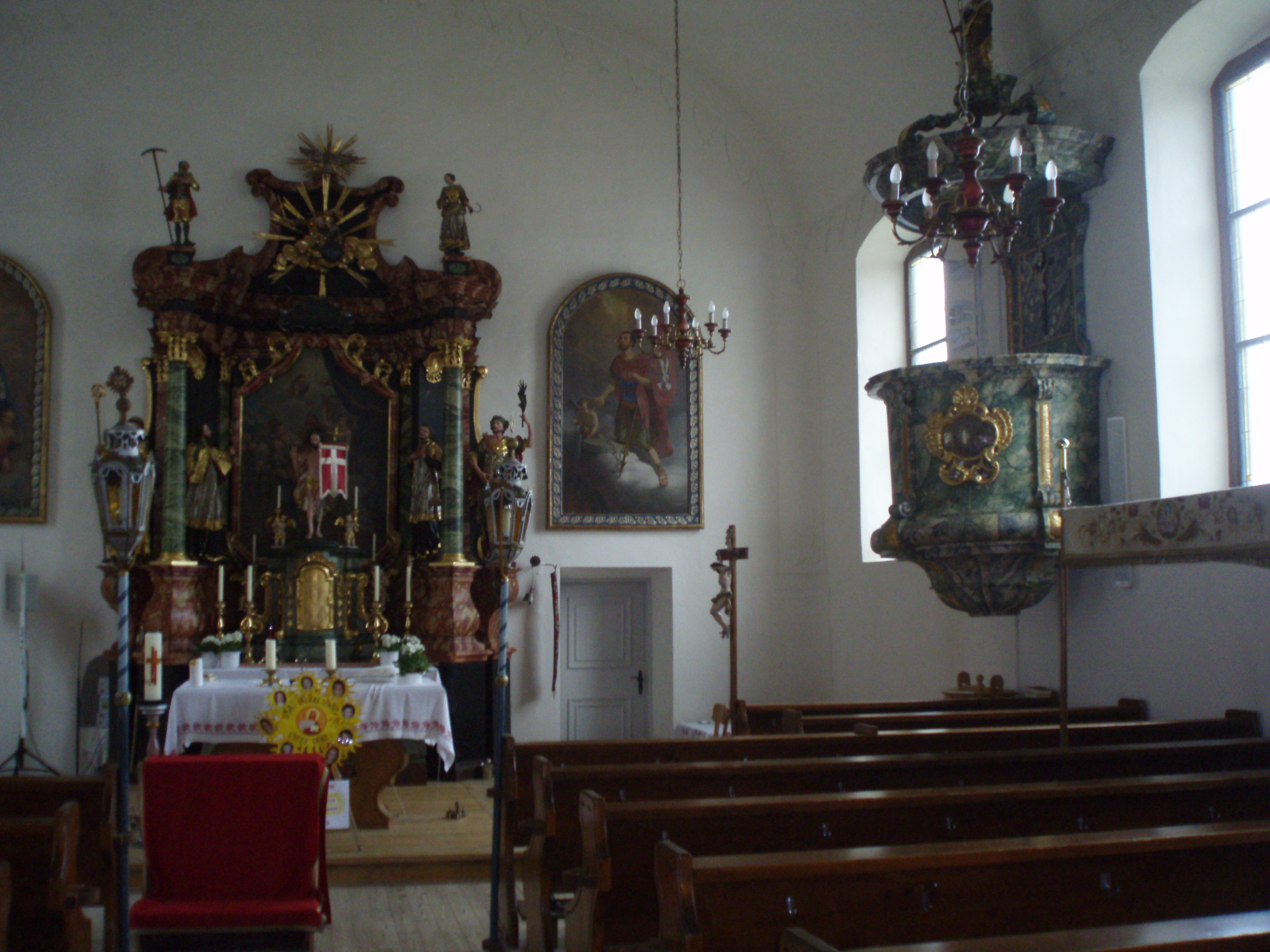 Kath. Pfarrkirche hl. Ulrich mit Pfarrhof und Friedhof